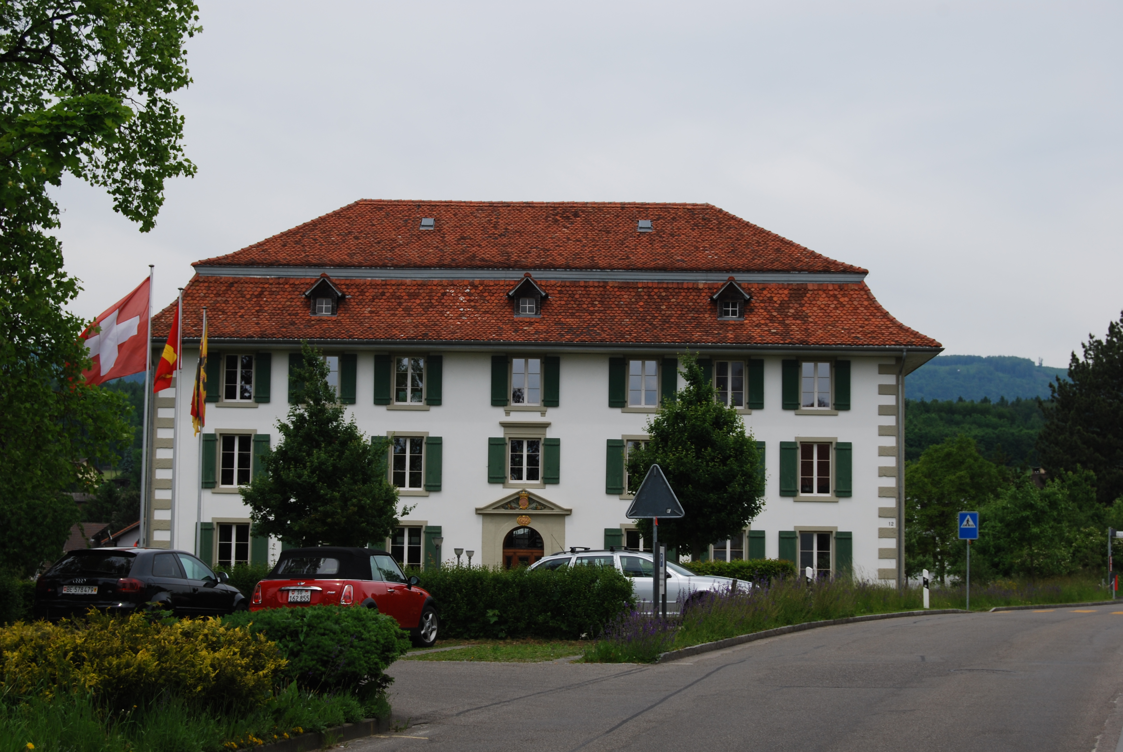 Granary Gottstatt – seat of the municipality of Orpund, canton of Bern, Switzerland